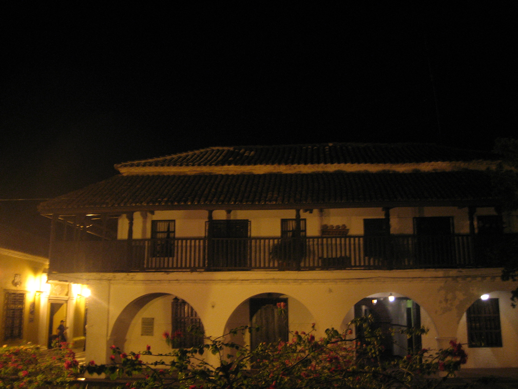 Image of downtown Valledupar, Colombia